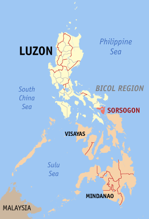 Map of the Philippines showing the location of Sorsogon